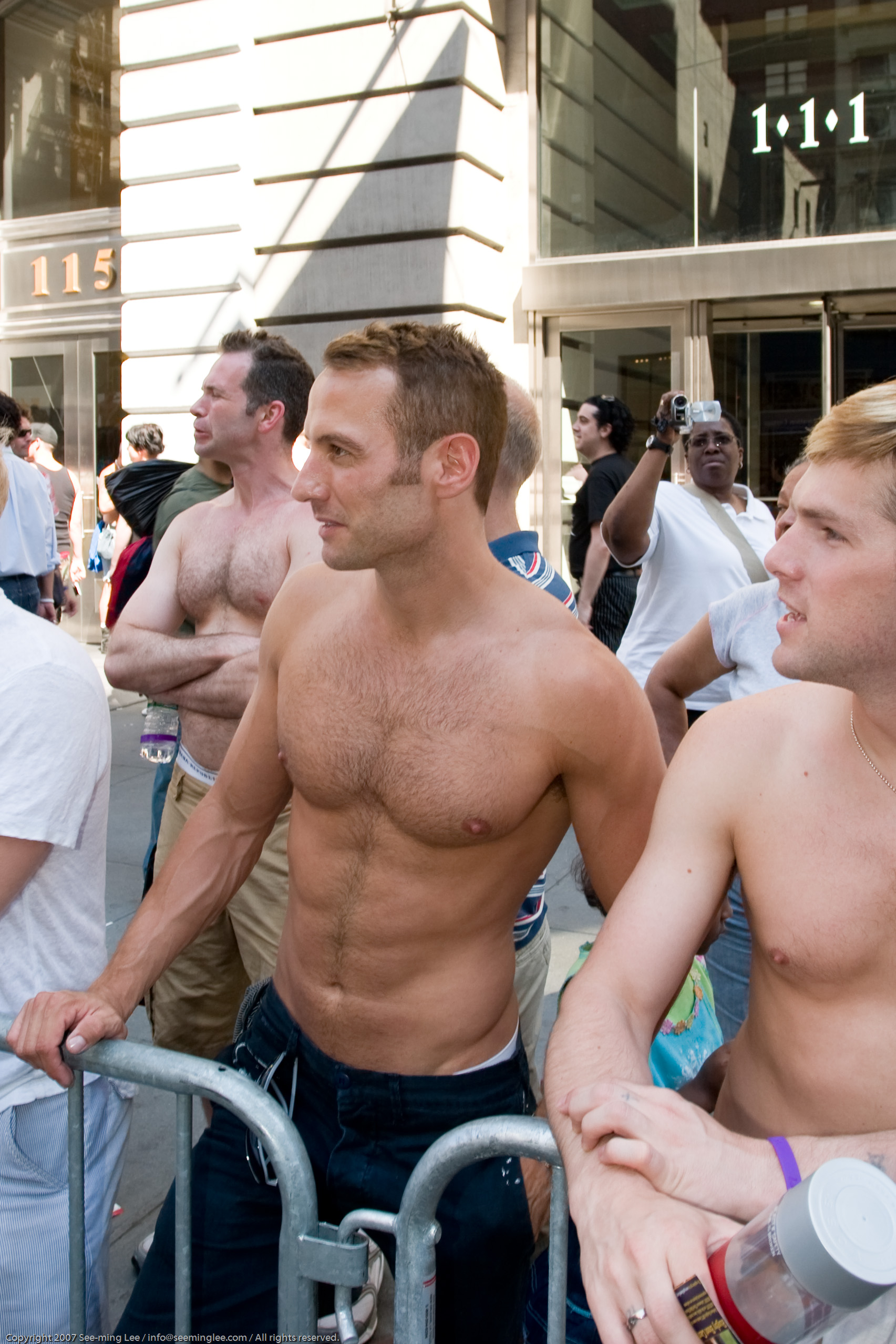 Photograph taken at the Gay Pride Parade in New York on Sunday, June 24, 2007, Walking down from 52nd Street + 6th Avenue to West Side Highway + Christopher Street. Direct URL Gay Pride New York 2007 Flickr Sets 200 Highlights / Gay Pride New York 2007 (Set) 200 Most Interesting / Gay Pride New York 2007 (Set) Annual Faerie + Church Ladies for Choice Drag March (Set) Coney Island Mermaid Parade 2007 (Set) Folsom Street East 2007 (Set) Gay Pride Parade New York 2007 (Set) Humanity / Portraits from Gay Pride New York 2007 (Set) Radical Faeries Drum Ritual / Gay Pride New York 2007 (Set) Content Syndication You may syndicate this content for non-commercial purposes as long as you attribute credits to me. Commercial usage will be considered on a case-by-case basis. Model Credits If you are the model of the photograph, email me at mailto: so I can give you proper credits. SML Copyright Notice Copyright 2007 ( All rights reserved.